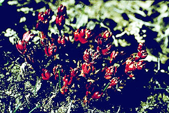 Geocarpon minimum "This image is not copyrighted and may be freely used for any purpose. Please credit the artist, original publication if applicable, and the USDA-NRCS PLANTS Database. The following format is suggested and will be appreciated: Arkansas Natural Heritage Commission @ USDA-NRCS PLANTS Database"